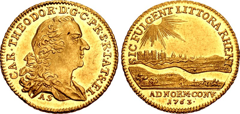 GERMANY, Pfalz (Kurfürstentum und Pfalzgrafschaft). Karl IV Theodor. 1742-1799. AV Dukat (21.5mm, 3.49 g, 12h). Mannheim mint. Dated 1763 AS. CAR • THEODOR • D : G • PR • S • R • I • A • T & EL •, draped and cuirassed bust right; A • S below / SIC FULGENT LITTORA RHENI, cityscape of Mannheim viewed from the Rhine river, with radiant sun to upper left; in exergue, AD NORM • CONV/ 1763 •. Haas 62; KM 113; Friedberg 2037. UNC, lustrous.